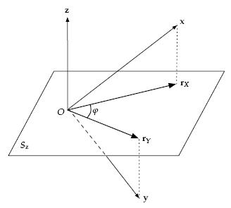 The partial correlation of X and Y given Z seen geometrically.